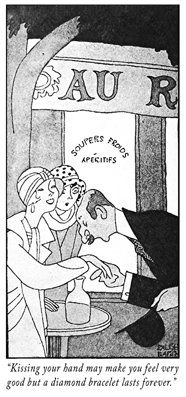 This is an illustration by Ralph Barton for the book Gentlemen Prefer Blondes. Barton died in 1931, so this work is in the public domain in its country of origin and other countries and areas where the copyright term is the author's life plus 80 years or less.